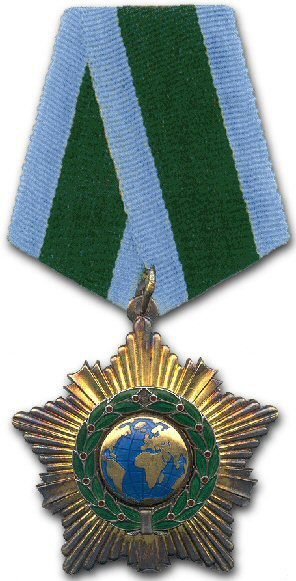 Russian Federation, Order of Friendship. Established by Presidential Decree No. 442 of 2 March 1994. Awarded to citizens for outstanding contribution in strengthening friendship and cooperation between nations and peoples, for outstanding achievements in the development of the economic and scientific potential of Russia, for the most productive rapprochement activities and for mutual enrichment of cultures, of nations and peoples, for fostering peace and friendly relations among nations.